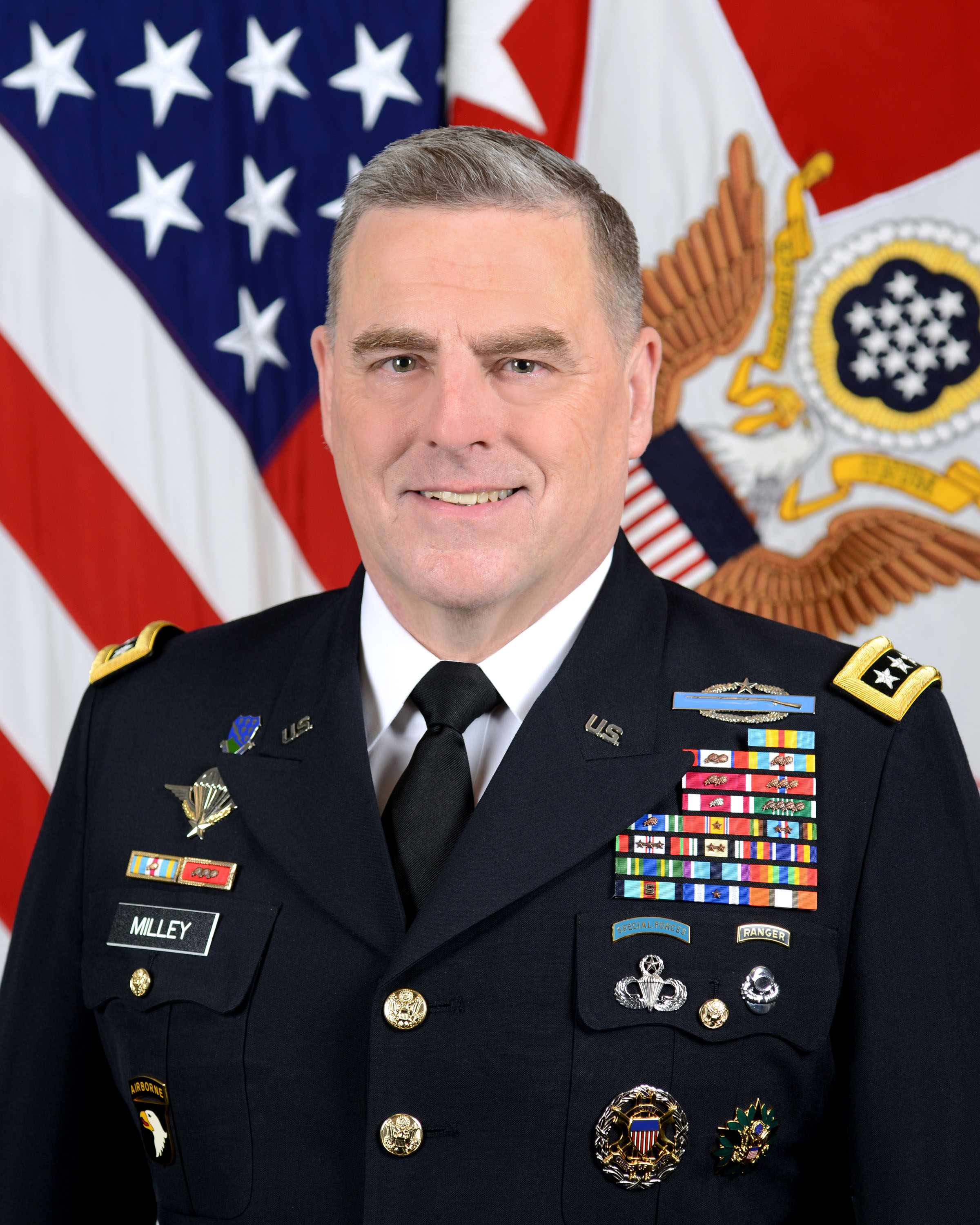 Gen. Mark A. Milley, Chief of Staff of the Army, poses for a command portrait in the Army portrait studio at the Pentagon in Washington, D.C., August 12, 2015. (U.S. Army photo by Monica King/Released)